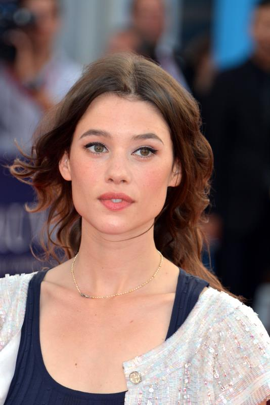 Astrid Bergès-Frisbey at the Deauville film festival